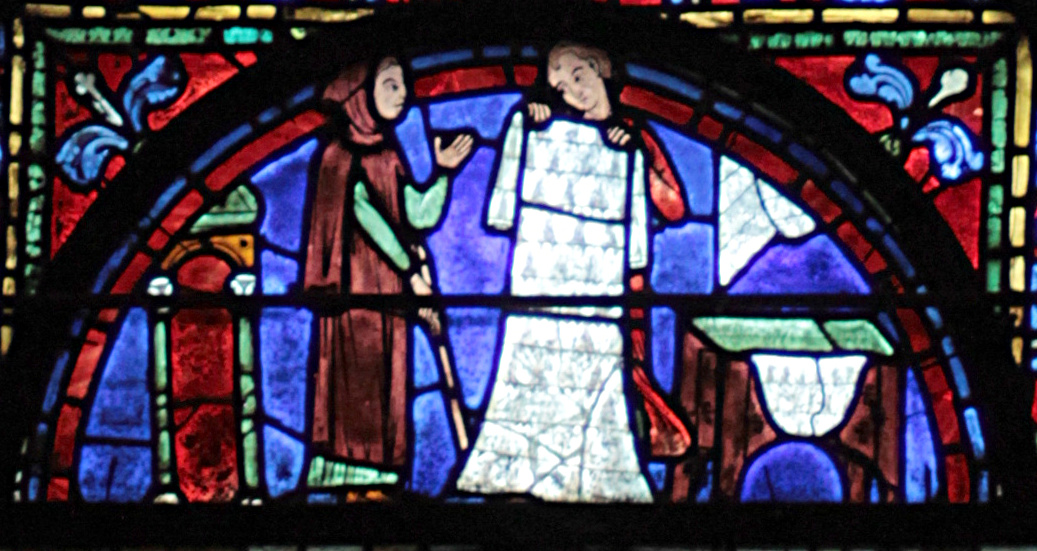 The Legends of Charlemagne (ambulatory, bay 7).